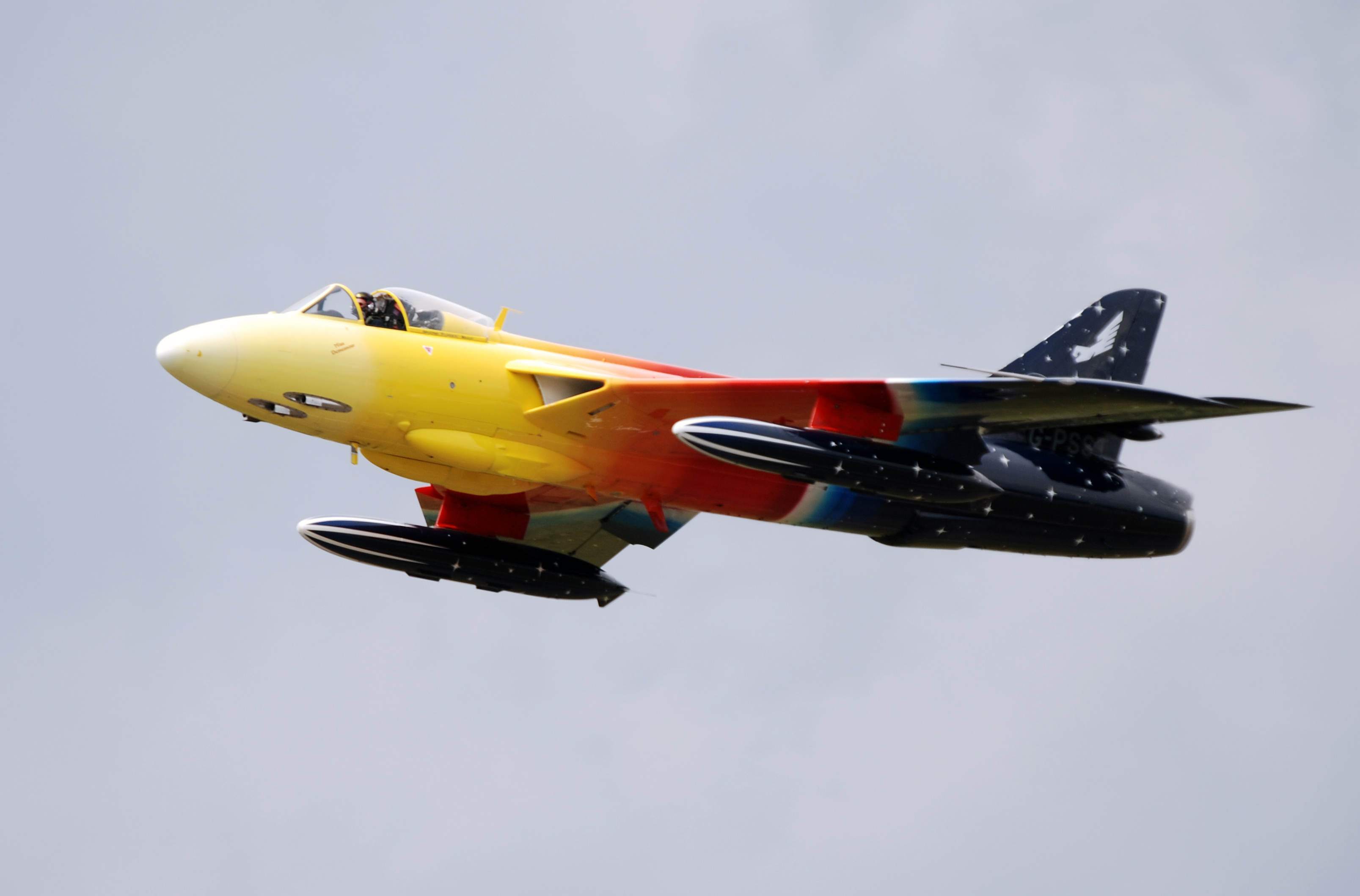 Biggin Hill Air Show,June 2009